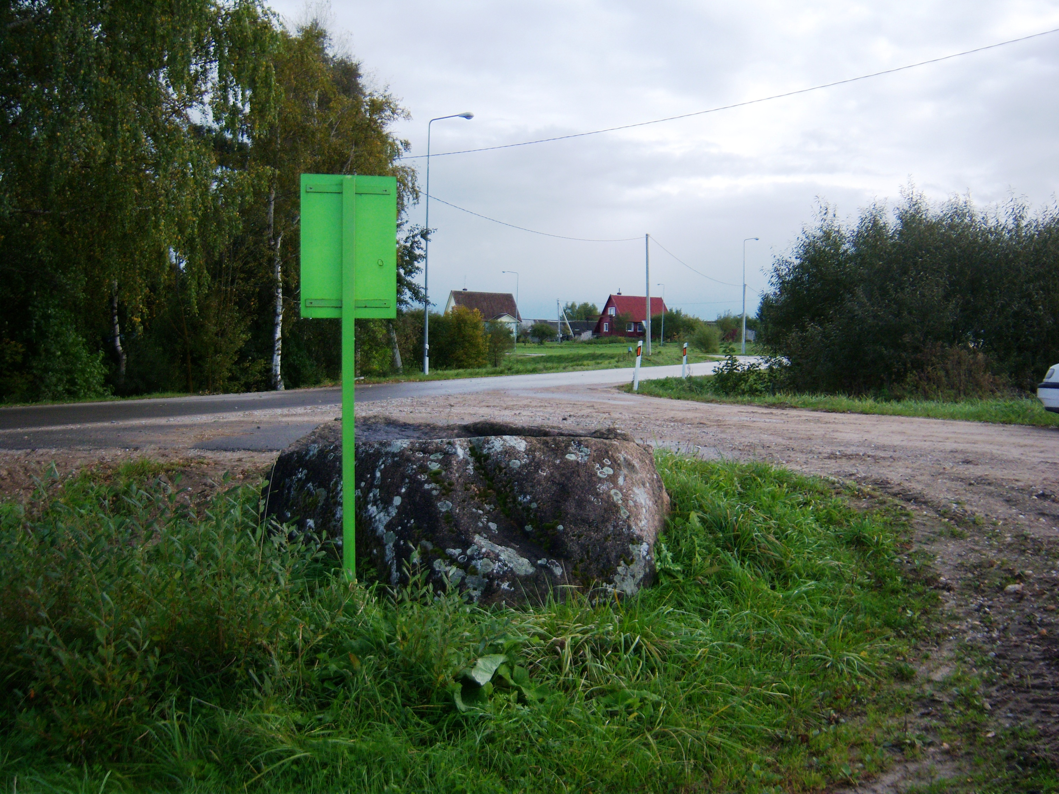 Nemaitonys stone, Kaišiadorys District, Lithuania